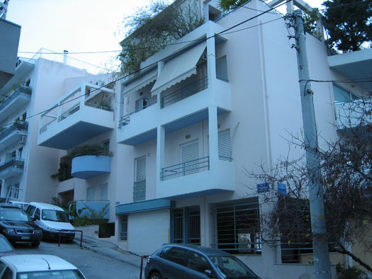 exterior view of a house in Athens, Greece